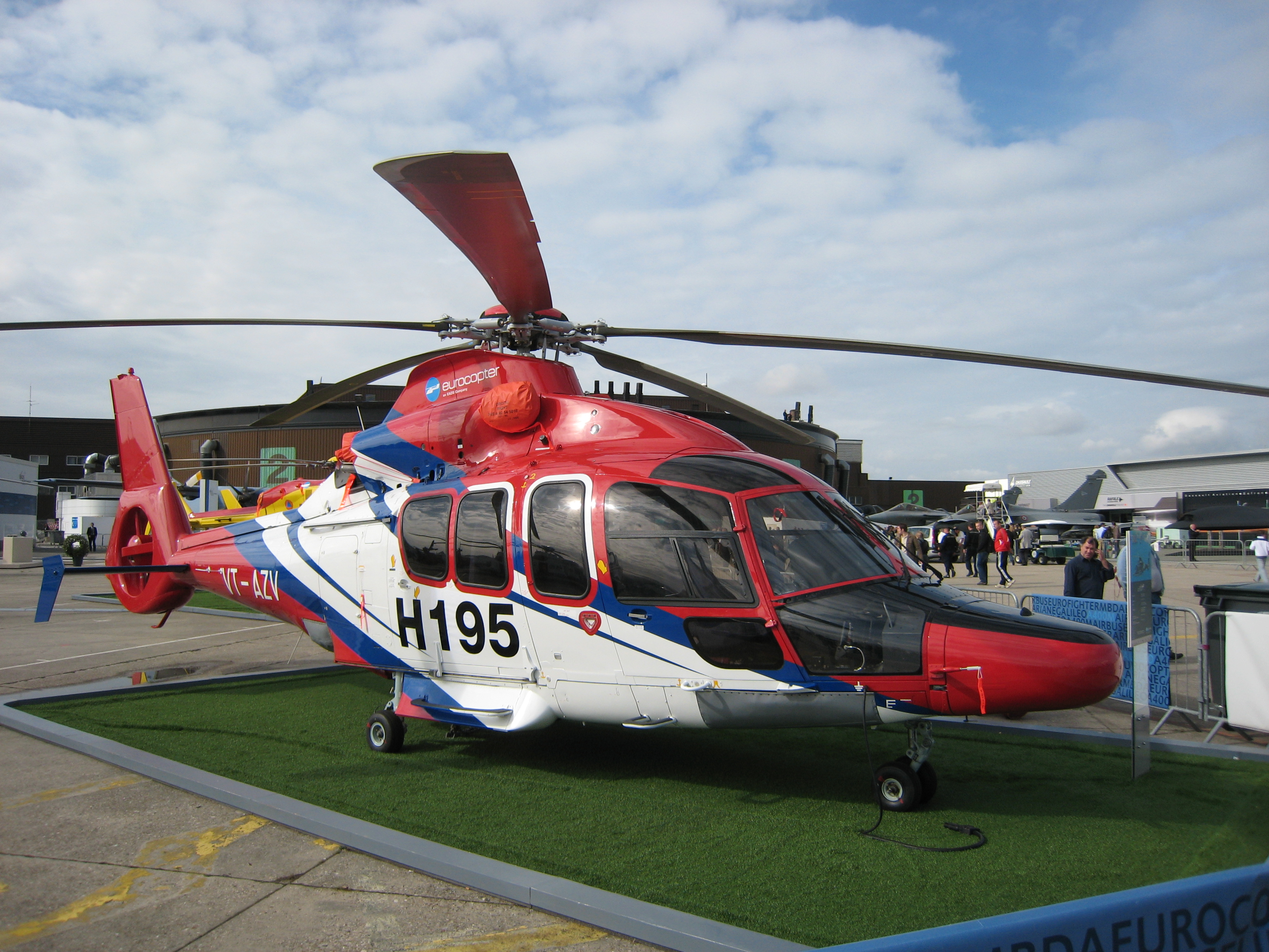 Eurocopter EC155 B1 at Paris Air Show 2007